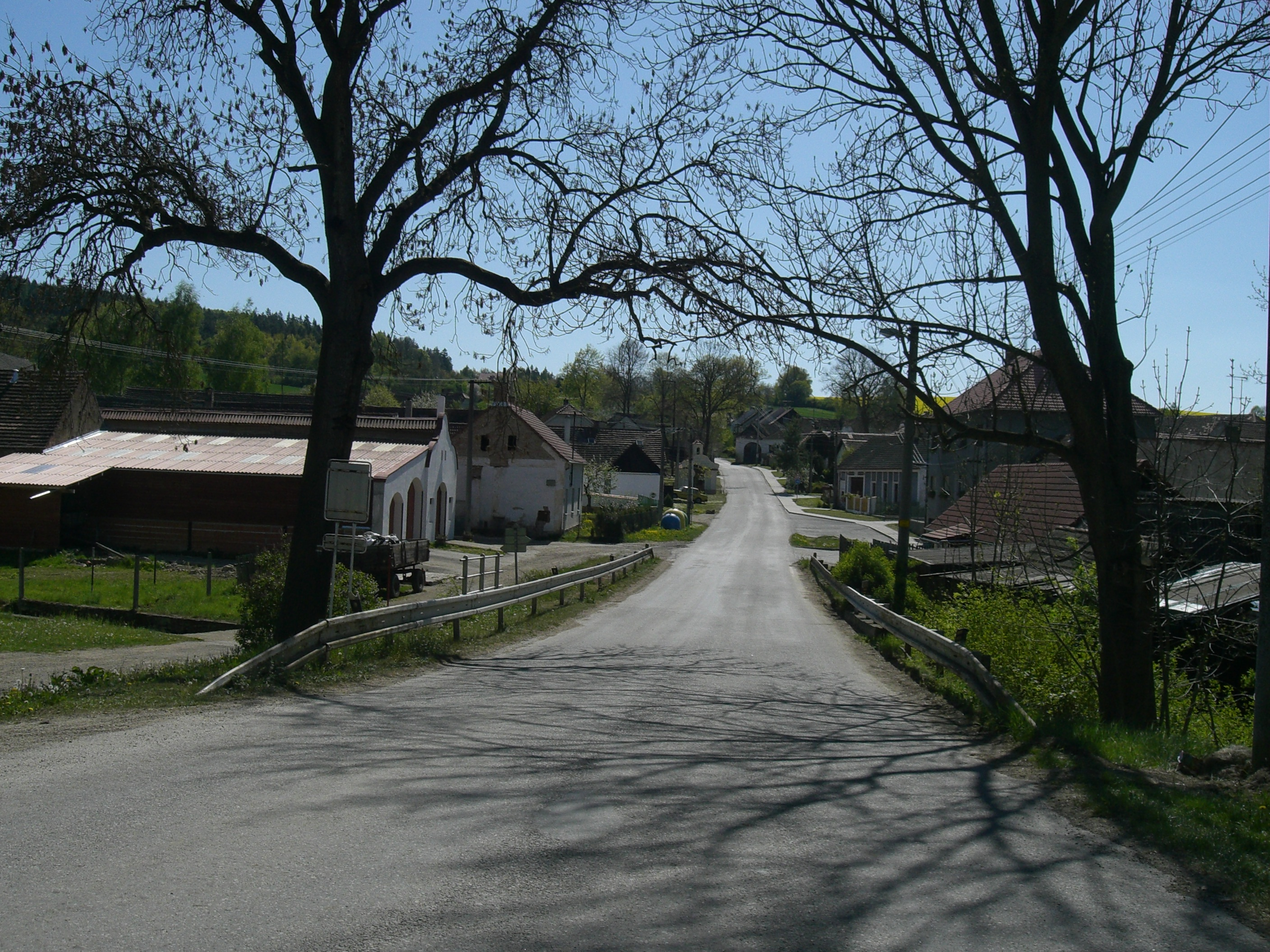 Vrcovice village in Písek district, Czech Republic.